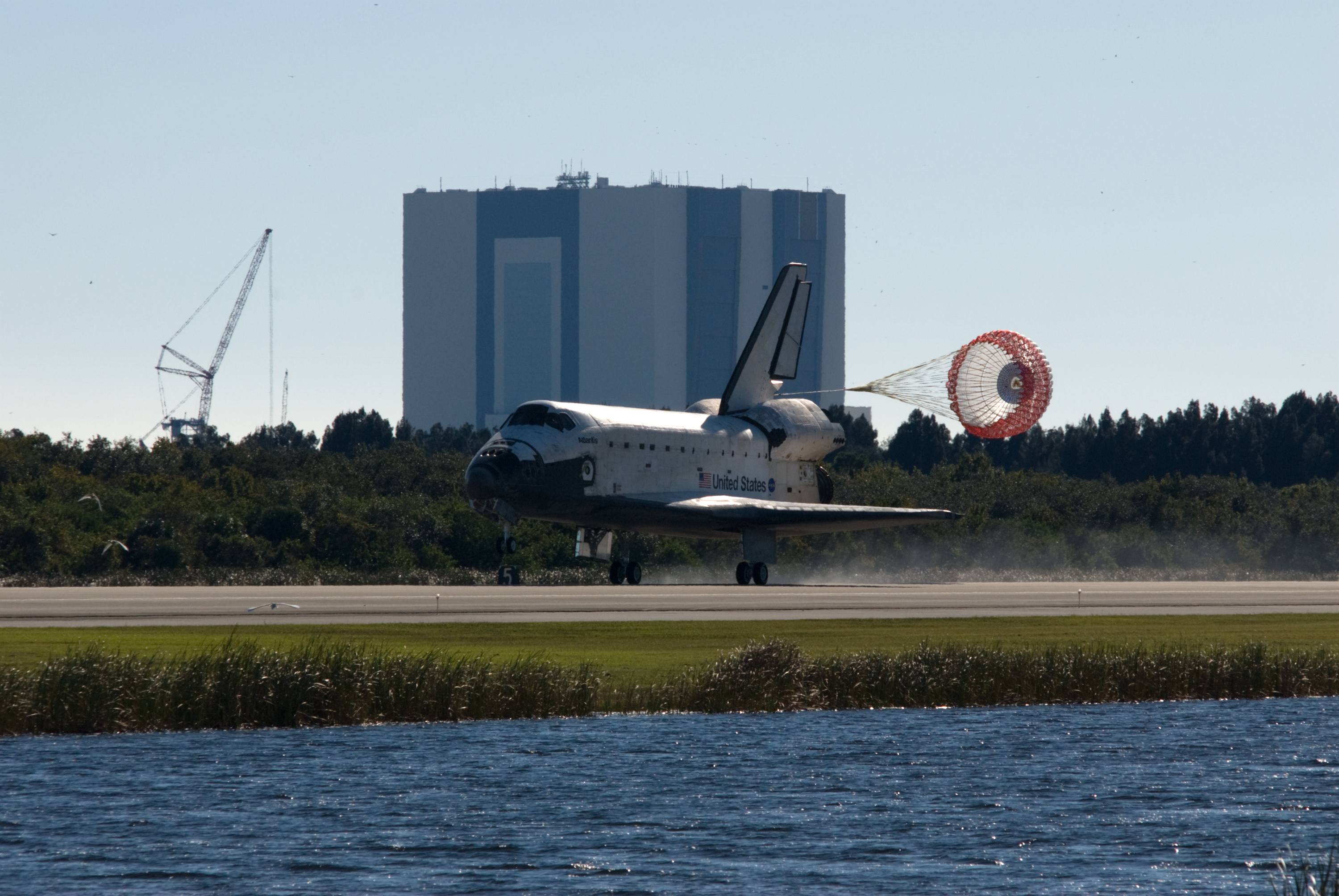 CAPE CANAVERAL, Fla. - With its drag chute unfurled, space shuttle Atlantis touches down on Runway 33 at the Shuttle Landing Facility at NASA's Kennedy Space Center in Florida after 11 days in space, completing the 4.5-million mile STS-129 mission on orbit 171. In the background are the 525-foot-tall Vehicle Assembly Building and a crane being used to construct a new mobile launcher to support the Constellation Program's Ares I rocket. Main gear touchdown was at 9:44:23 a.m. EDT. Nose gear touchdown was at 9:44:36 a.m., and wheels stop was at 9:45:05 a.m. Aboard Atlantis are Commander Charles O. Hobaugh; Pilot Barry E. Wilmore; Mission Specialists Leland Melvin, Randy Bresnik, Mike Foreman and Robert L. Satcher Jr.; and Expedition 20 and 21 Flight Engineer Nicole Stott who spent 87 days aboard the International Space Station. STS-129 is the final space shuttle Expedition crew rotation flight on the manifest. On STS-129, the crew delivered 14 tons of cargo to the orbiting laboratory, including two ExPRESS Logistics Carriers containing spare parts to sustain station operations after the shuttles are retired next year. For information on the STS-129 mission and crew, visit